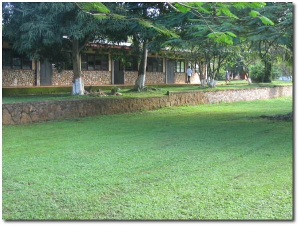 class